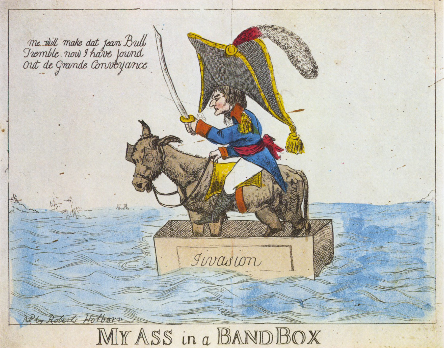 My ass in a bandbox, caricature mocking Napoléon's invasion plans against England